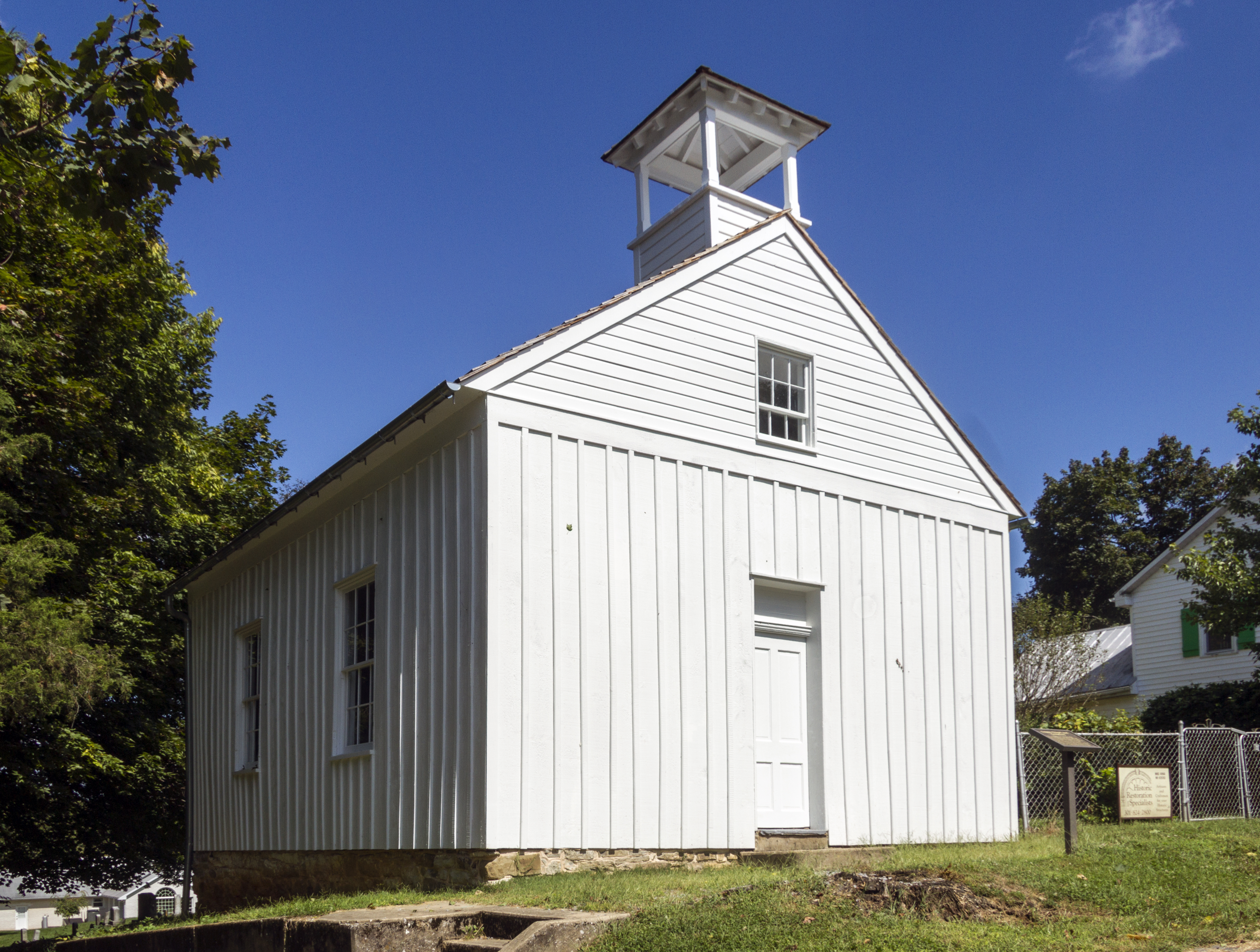 Tolson's Chapel, a black church at Sharpsburg in western Maryland. It was built in 1866 and served as a church and a Freedman's Bureau school for black residents after the Civil War. It is listed on the National Register of Historic Places.